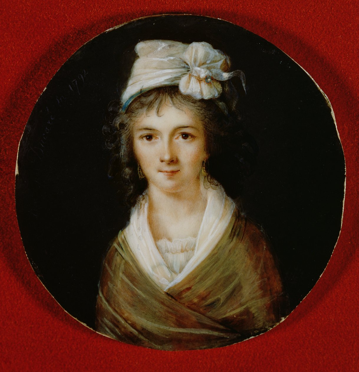 Portrait of an unidentified woman, sometimes believed to be of Claire Lacombe.